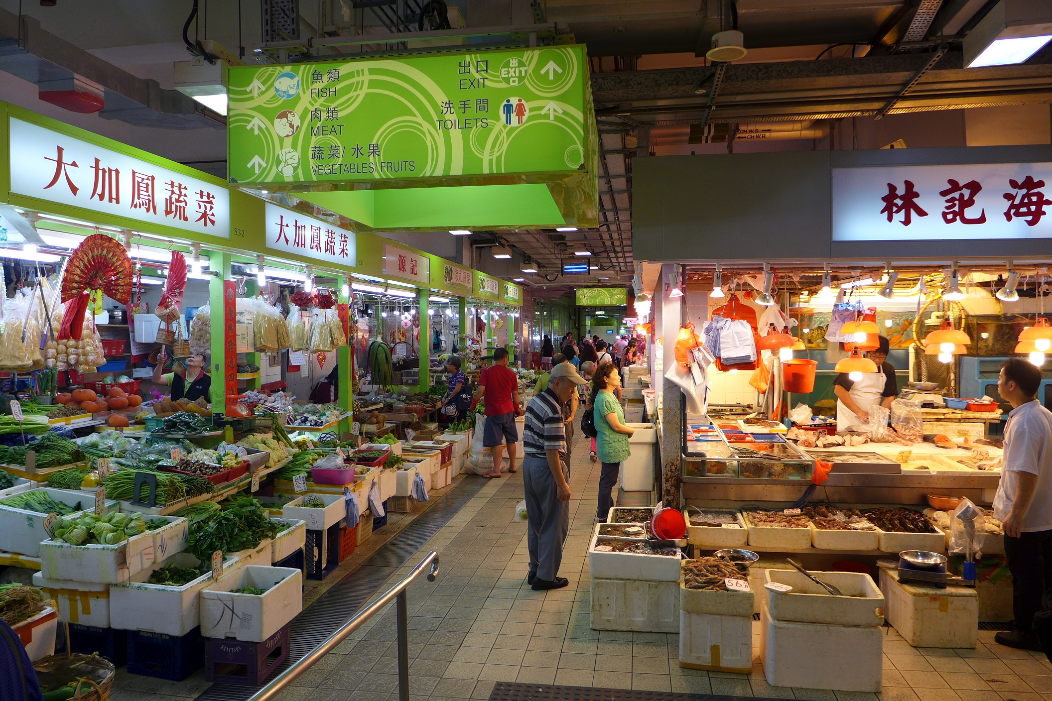 New Wan Chai Market Interior